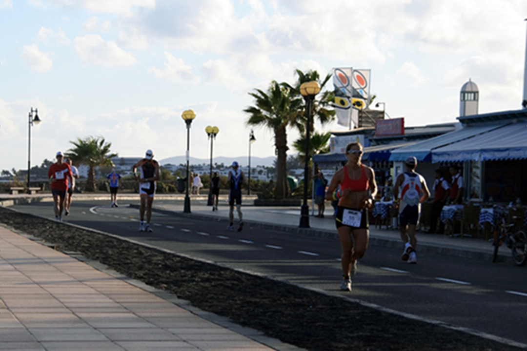 Triathletes at Ironman Lanzarote 2008